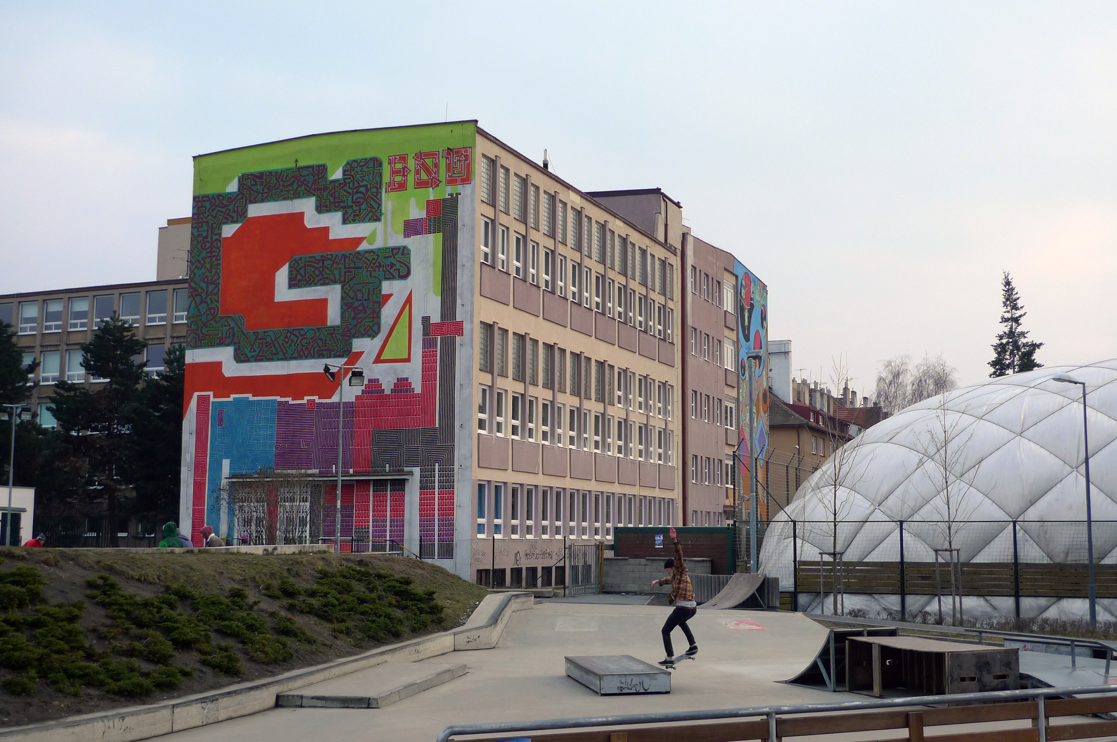 Mural art on Gutova elementary school in Prague 10, Czech Republic